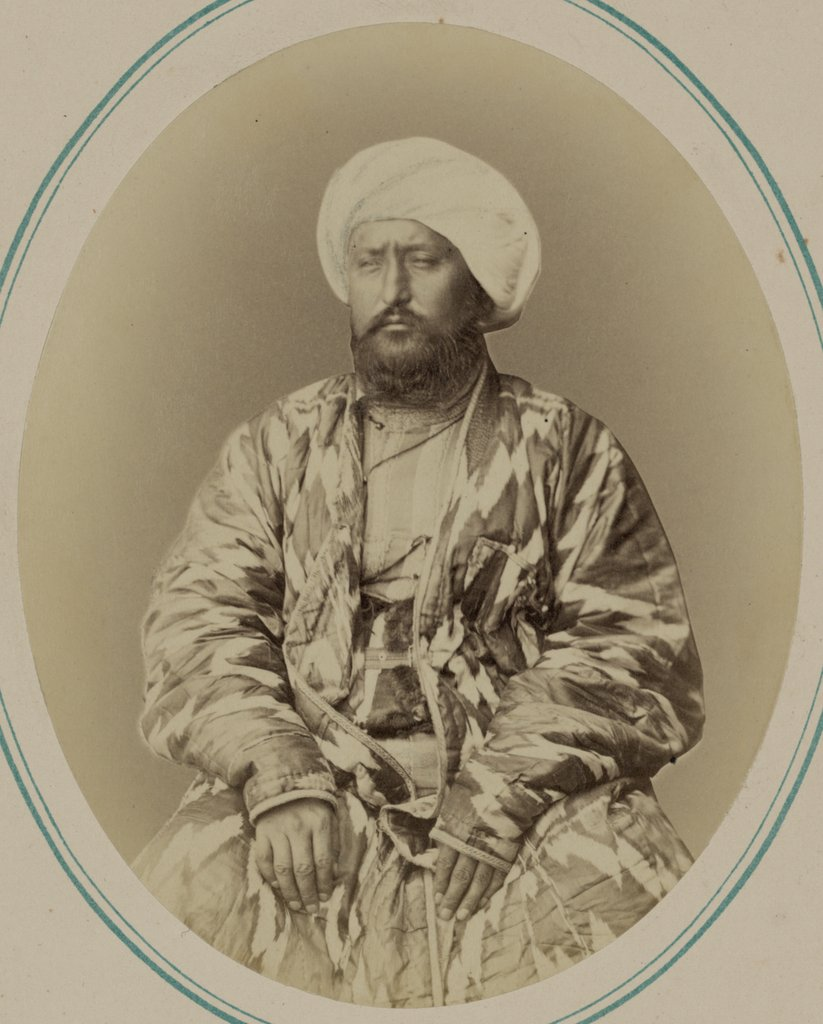 Seid Mukhamed Khudayar Khan, Kokand Khan